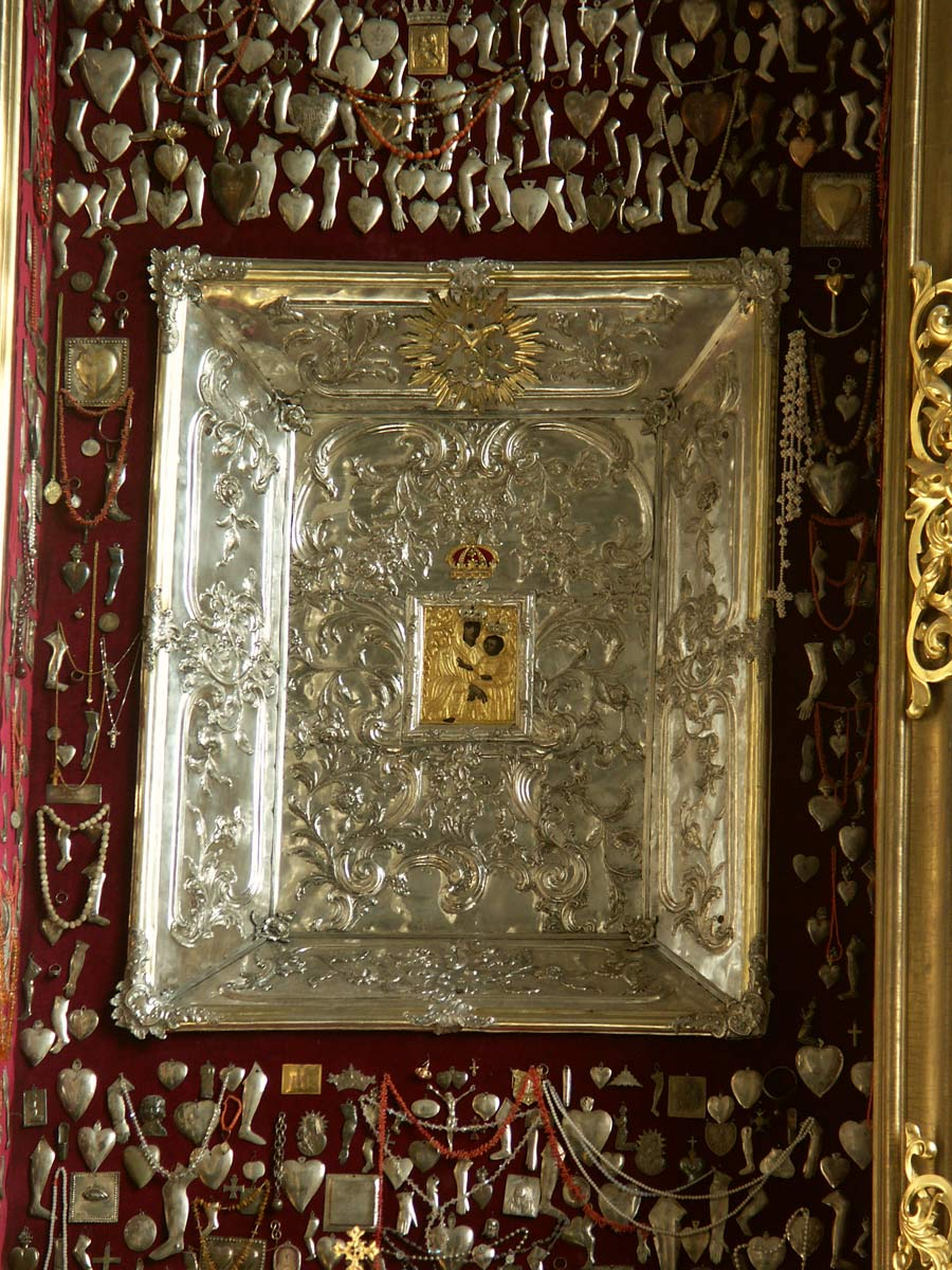 Holy icon in the Catholic church of St. Francis Ksaver